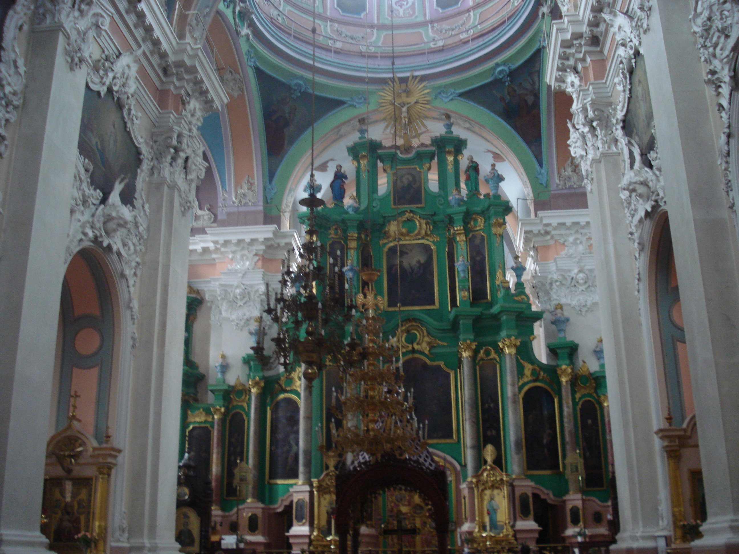 Main altar in the Orthodox Church of the Holy Spirit in Vilnius (Aušros vartų g. 10)